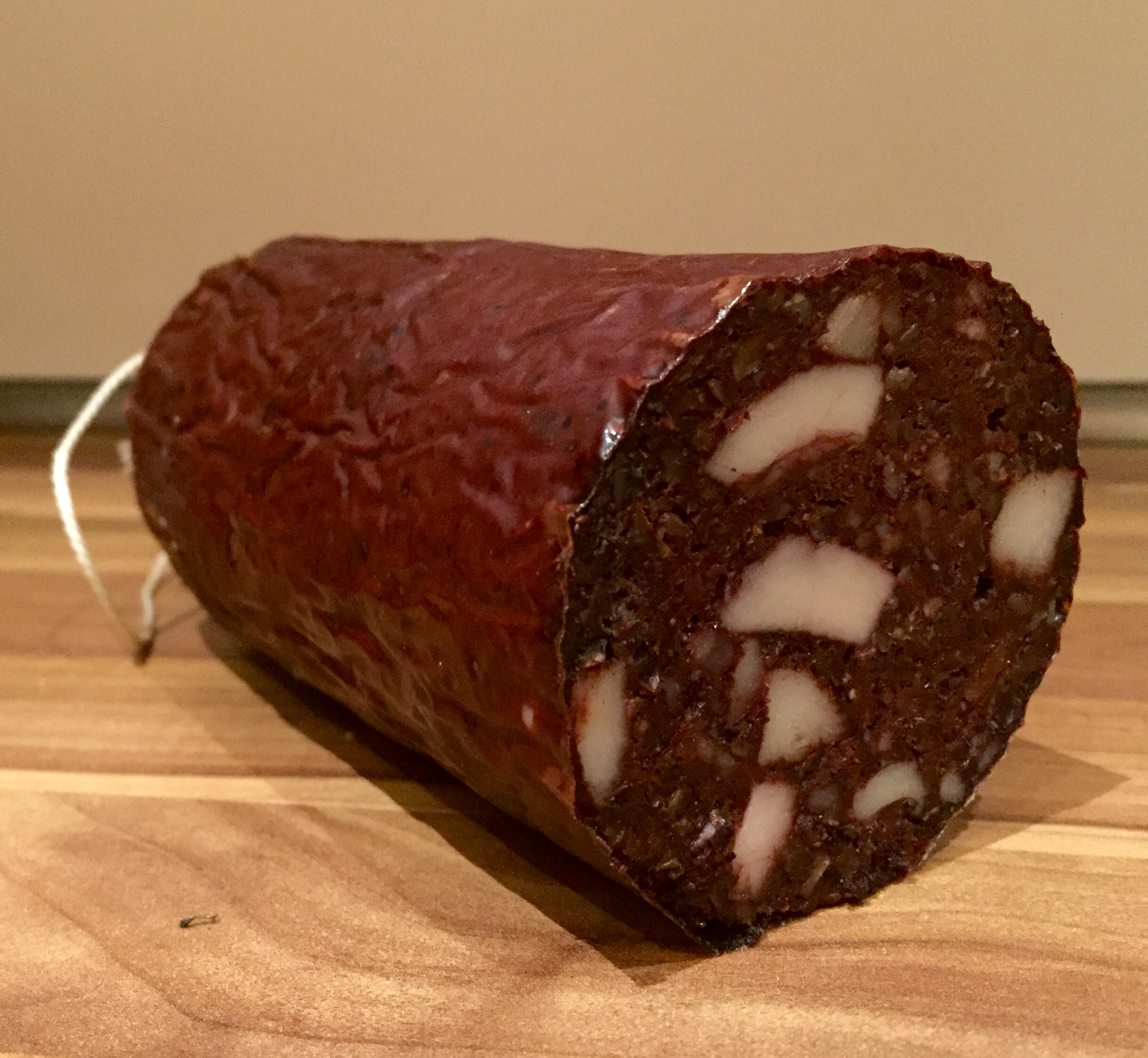 Blood sausage